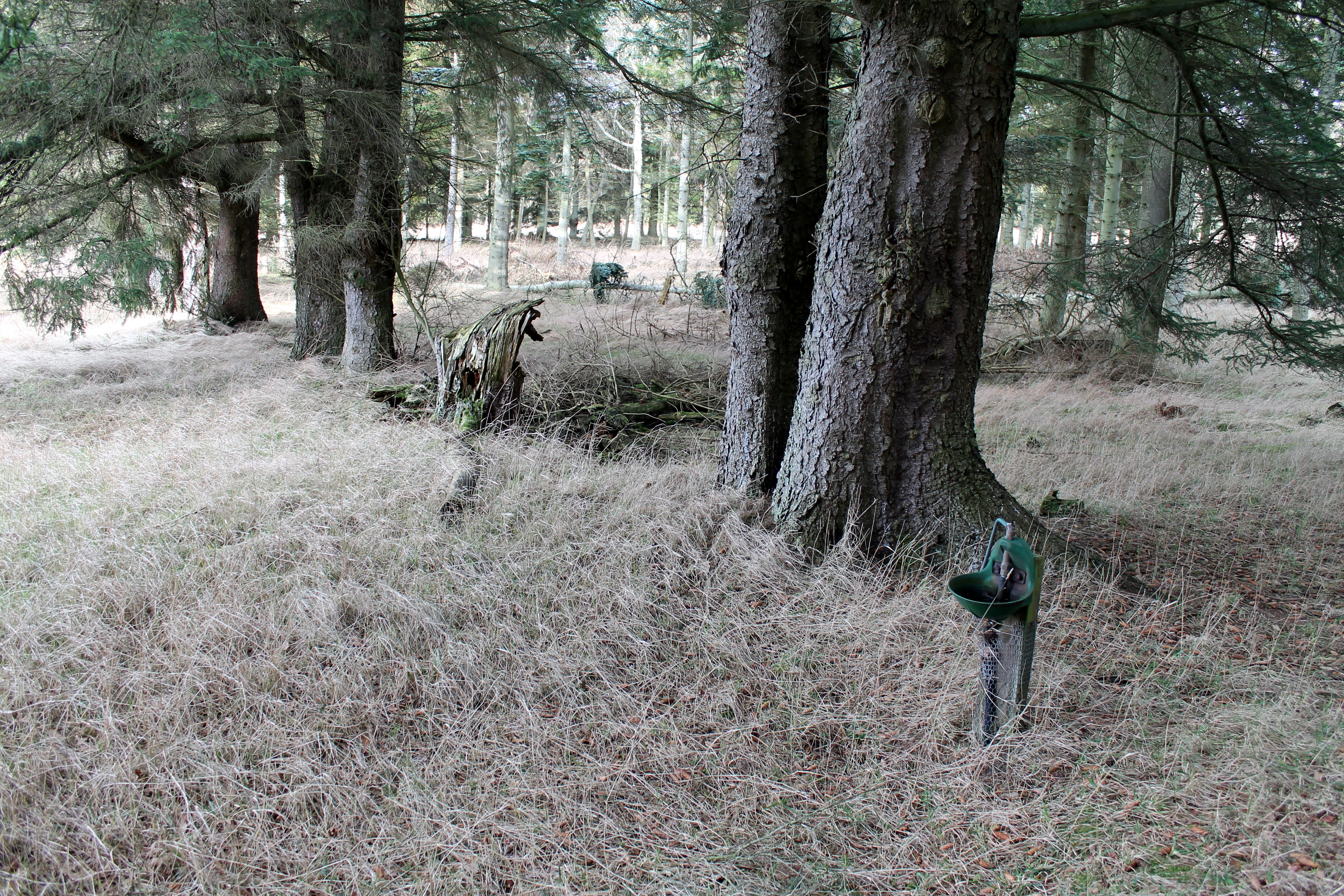 A drinking/watering place for forrest animals, Uggerby, Denmark